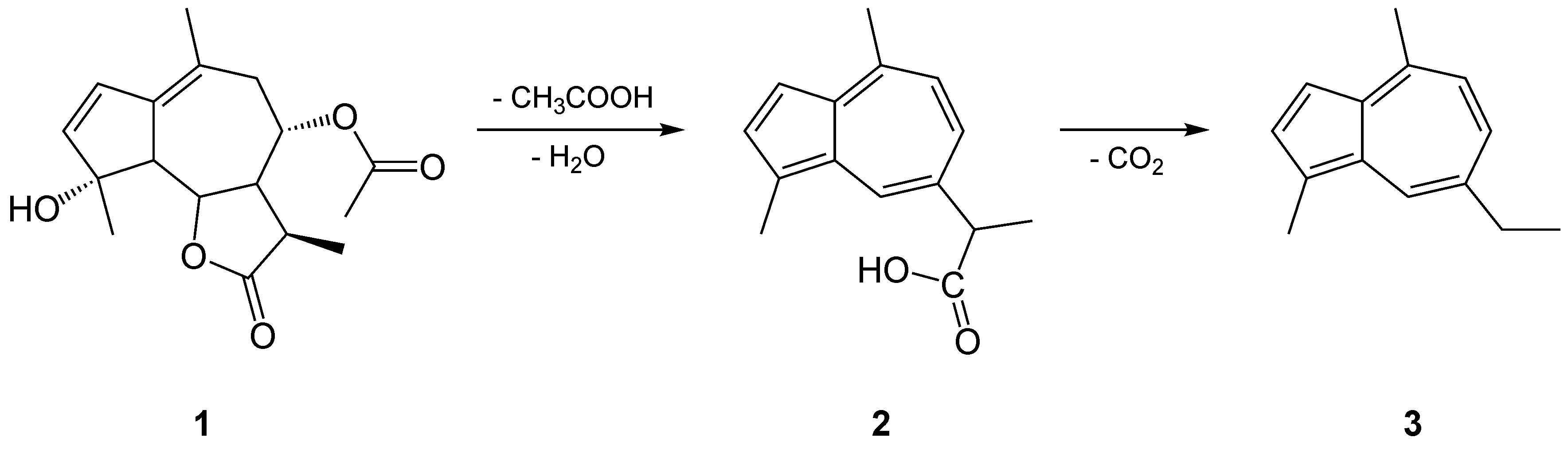 Synthesis of Chamazulen